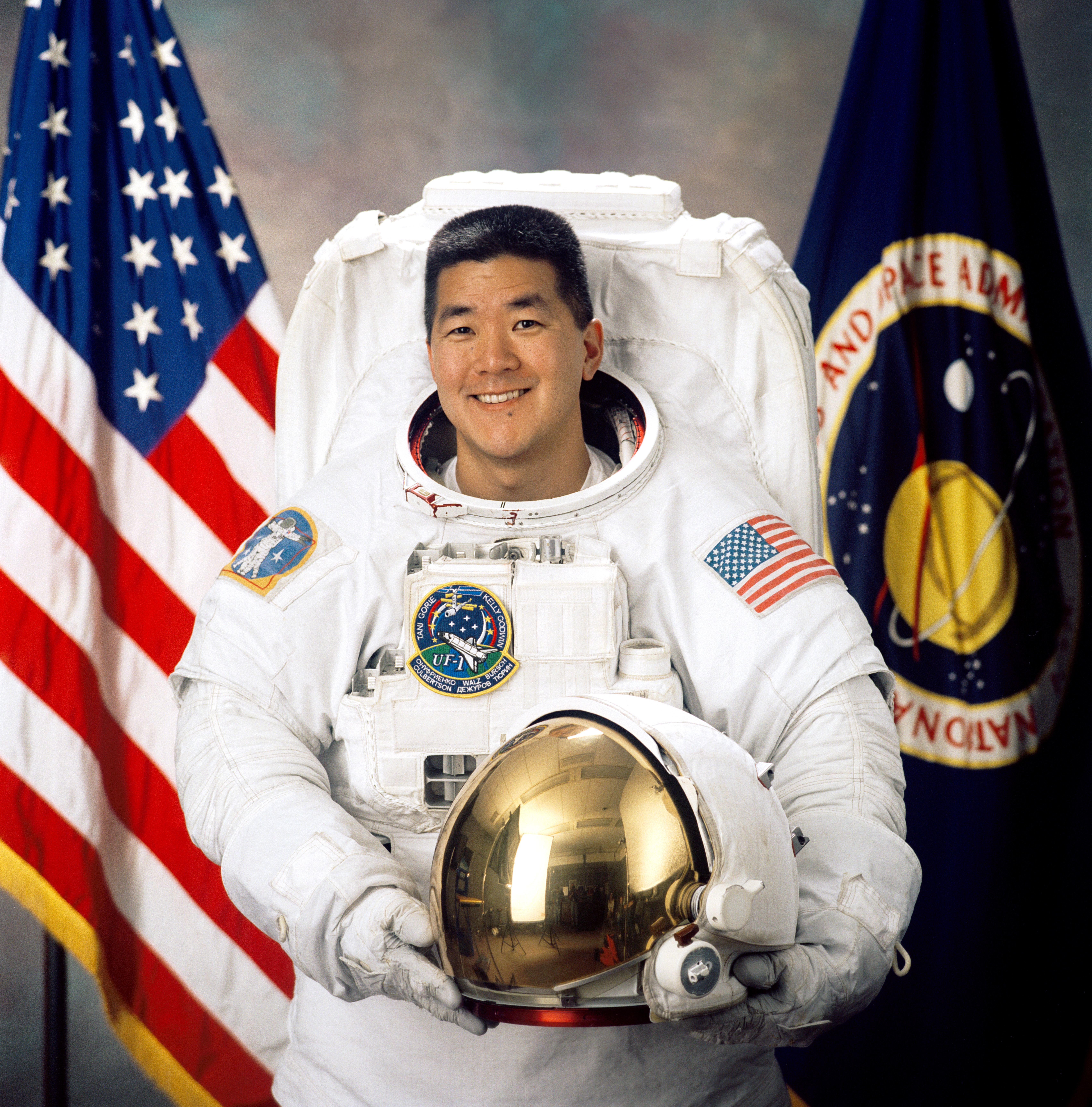 Portrait of astronaut Daniel M. Tani.